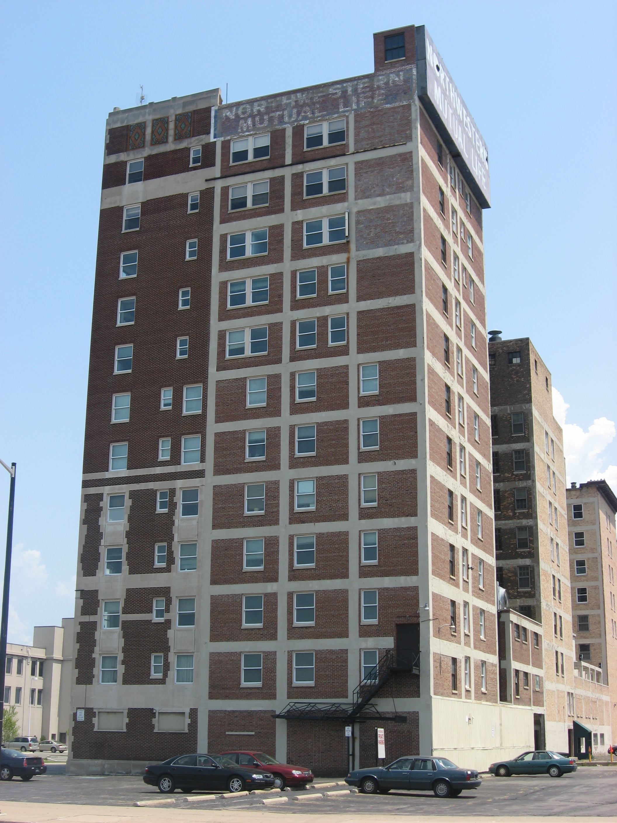 Western side of the Hoffman Hotel, located at 120 W. LaSalle Avenue in South Bend, Indiana, United States. Built in 1920, it is listed on the National Register of Historic Places.